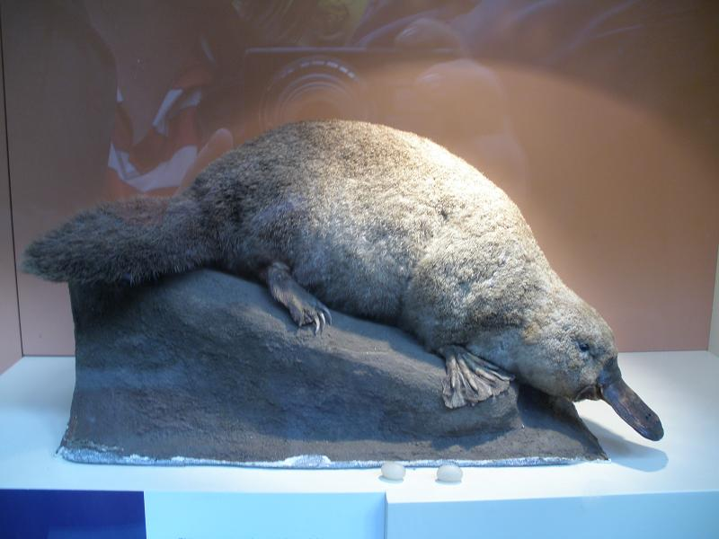 Taxidermied platypus (Ornithorhynchus anatinus) at the Natural History Museum in London, England.